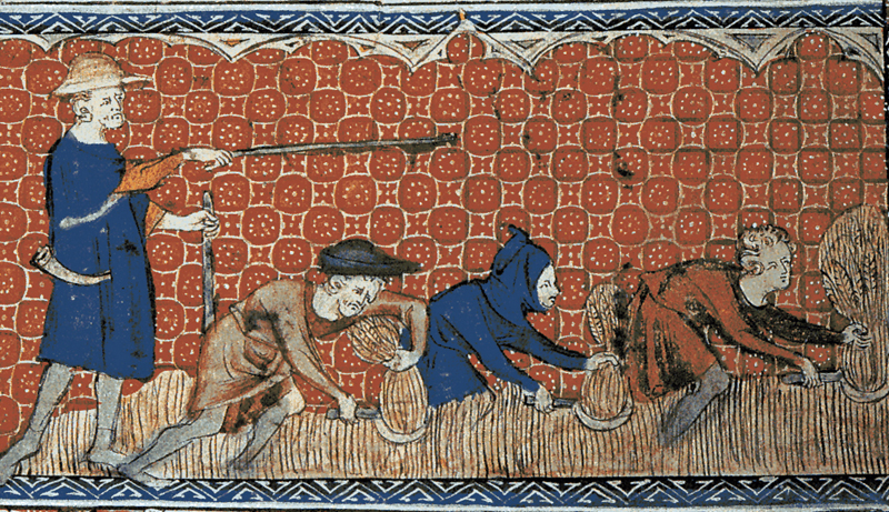 Medieval illustration of men harvesting wheat with reaping-hooks, on a calendar page for August. Queen Mary's Psalter (Ms. Royal 2. B. VII), fol. 78v[1].